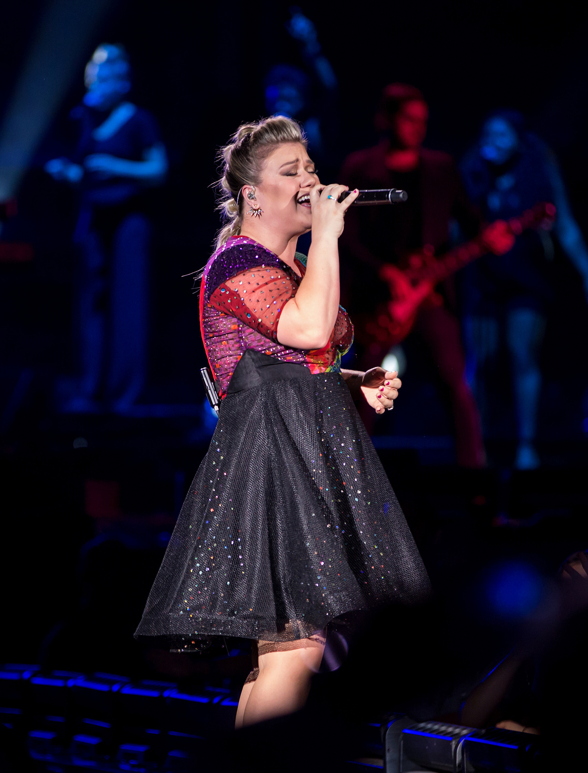 Kelly Clarkson performing on stage during the 2015 Piece By Piece Tour held at the Austin360 Amphitheater in Austin, Texas on August 29, 2015.